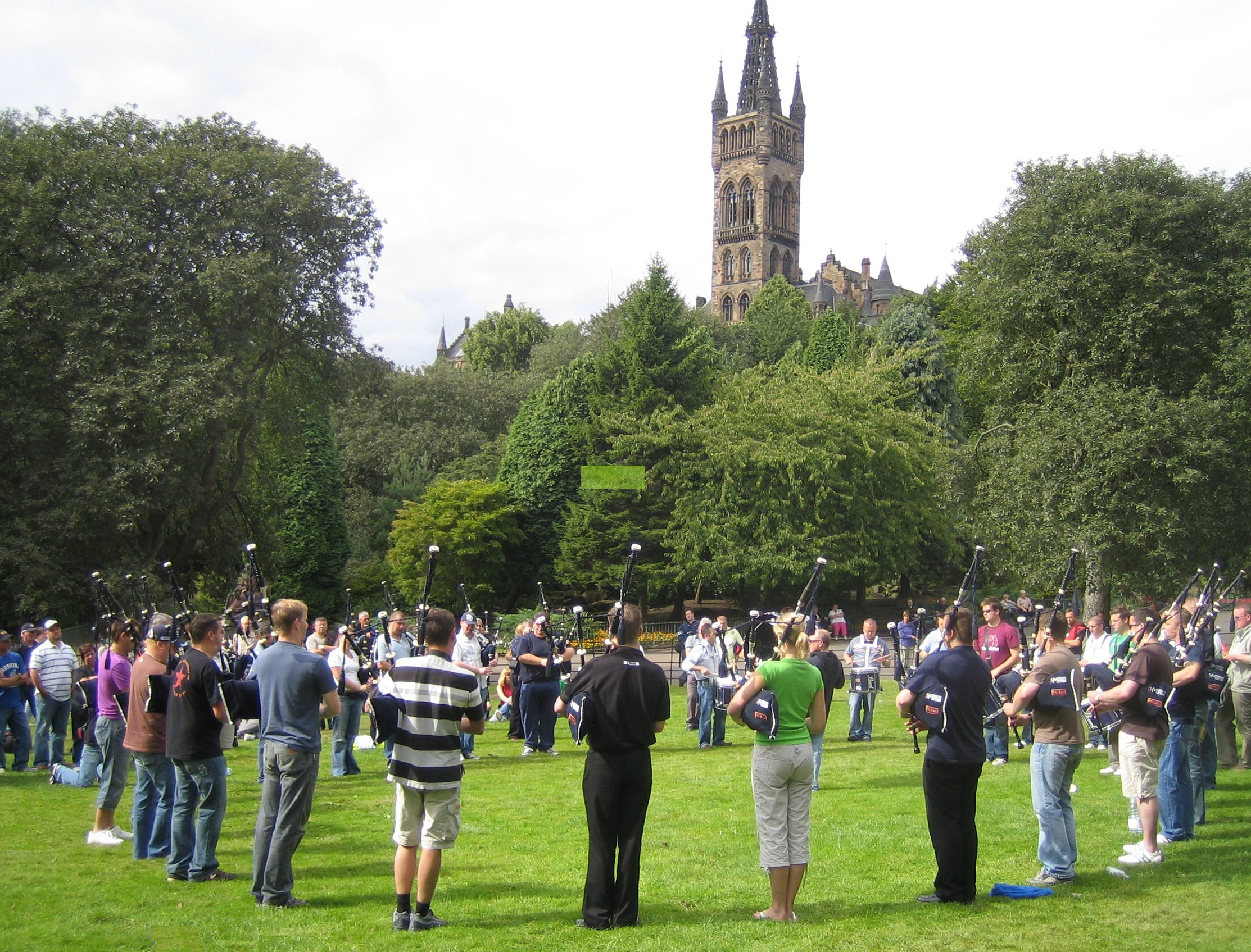 Field Marshal Montgomery Pipe Band rehearsing before the 2006 World Championships in Kelvingrove Park, Glasgow